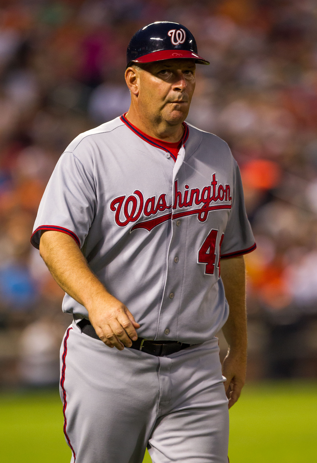 Washington Nationals coach Trent Jewett - Nationals at Orioles June 22, 2012